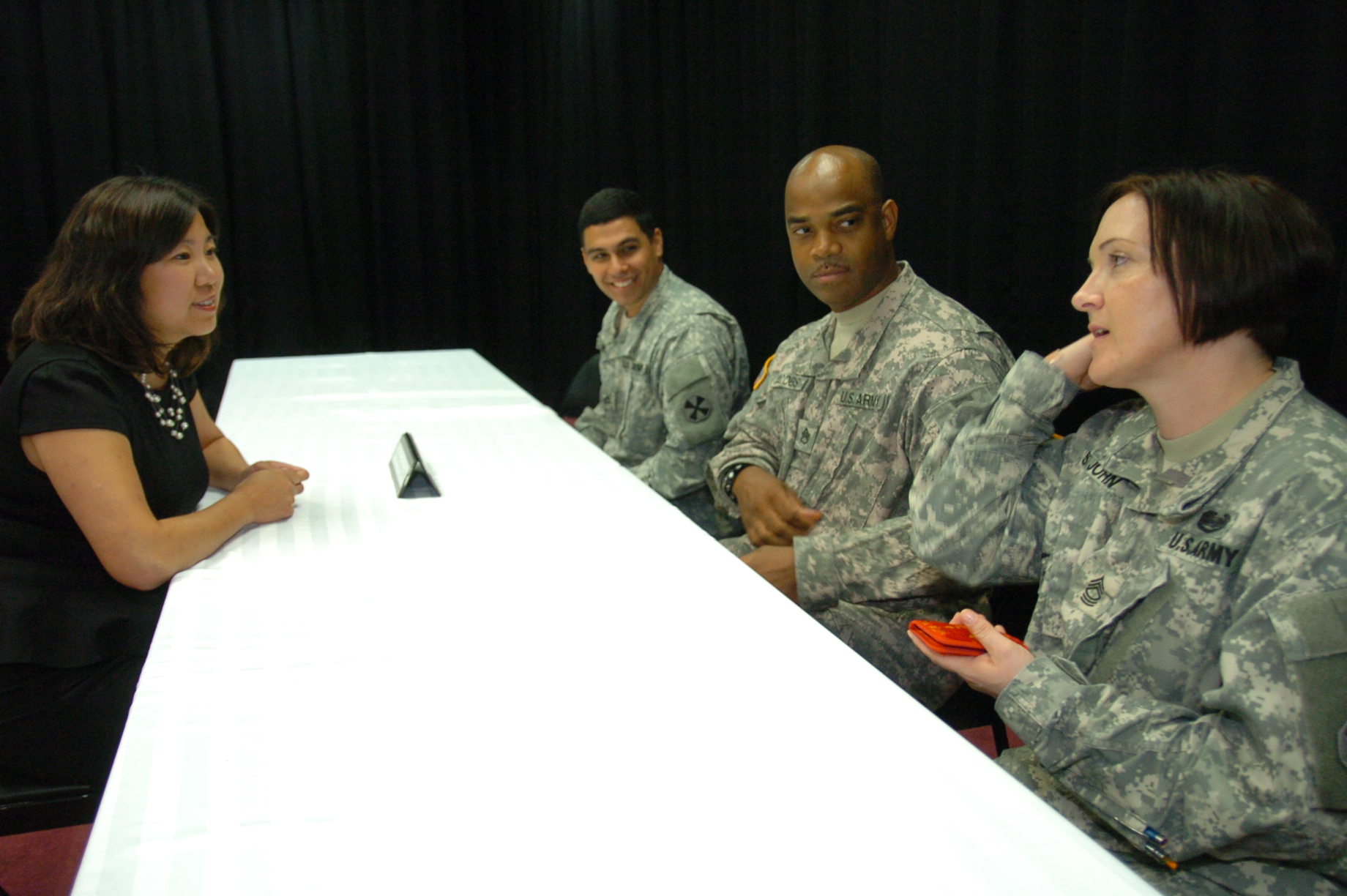 YONGSAN GARRISON, SEOUL, South Korea - U.S. Rep. Grace Meng (D-NY) meets with constituent service members Sept. 4 at South Post Chapel. Interested in following U.S. Forces Korea? Engage and connect with us at and and